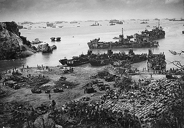 Okinawa - American LCTs unload supplies on Yellow Beach near the mouth of the Bishi Gawa river on 13 April 1945.